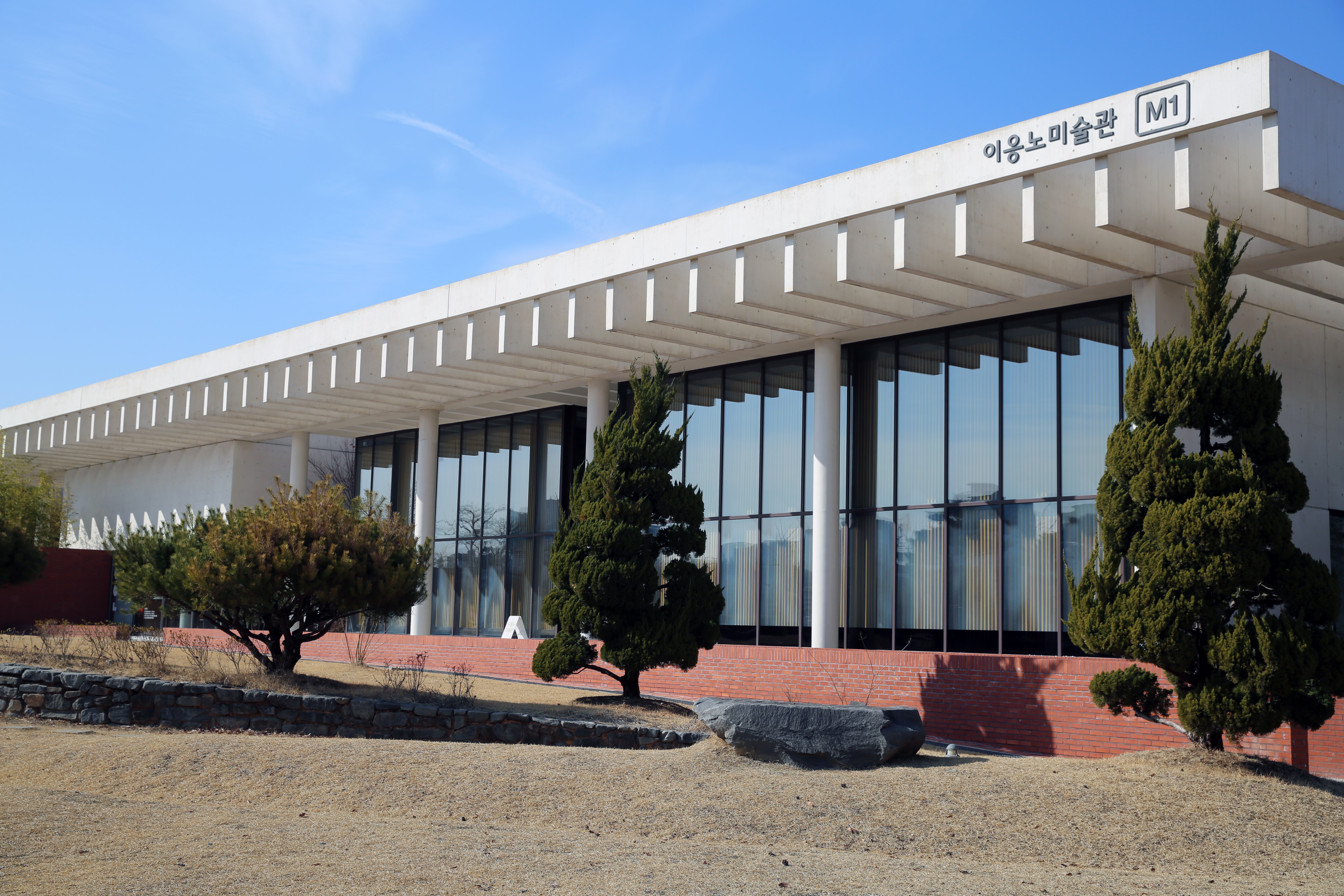 Leeungno Museum showing casing artworks by Yi Eungro